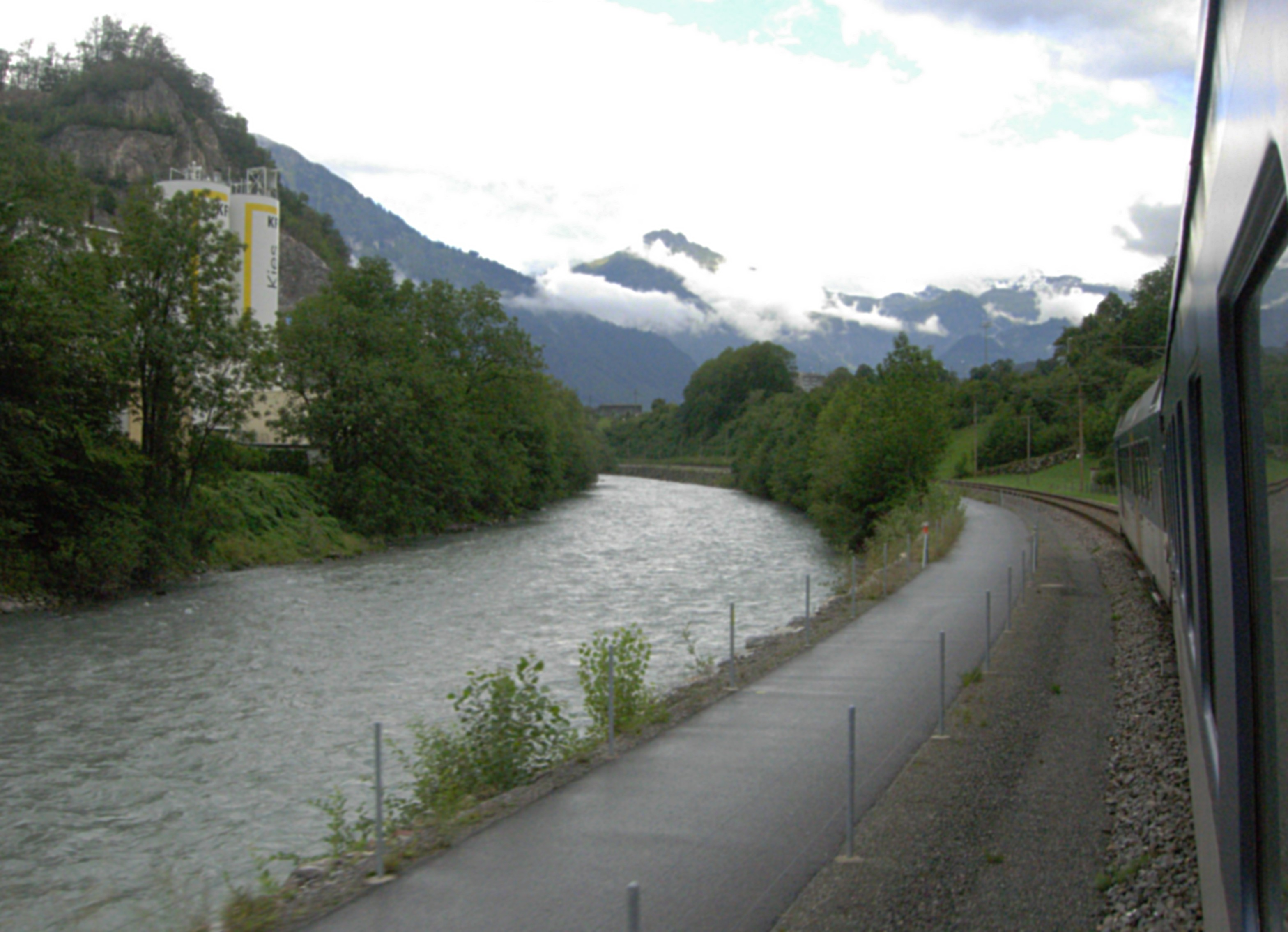 The Linth river between Netstal and Glarus, Switzerland. Picture taken from an SBB train on this line.